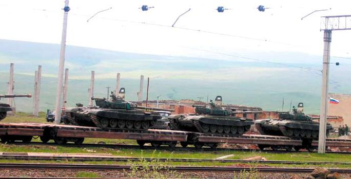 Echelon of Russian troops evacuate their base in Georgia, 2007